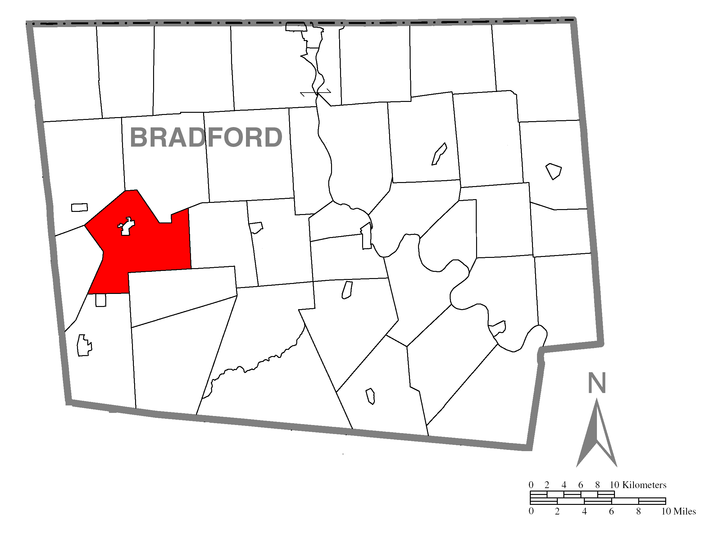 A map of Bradford County showing Troy Township, Pennsylvania (alternate) highlighted on the map.